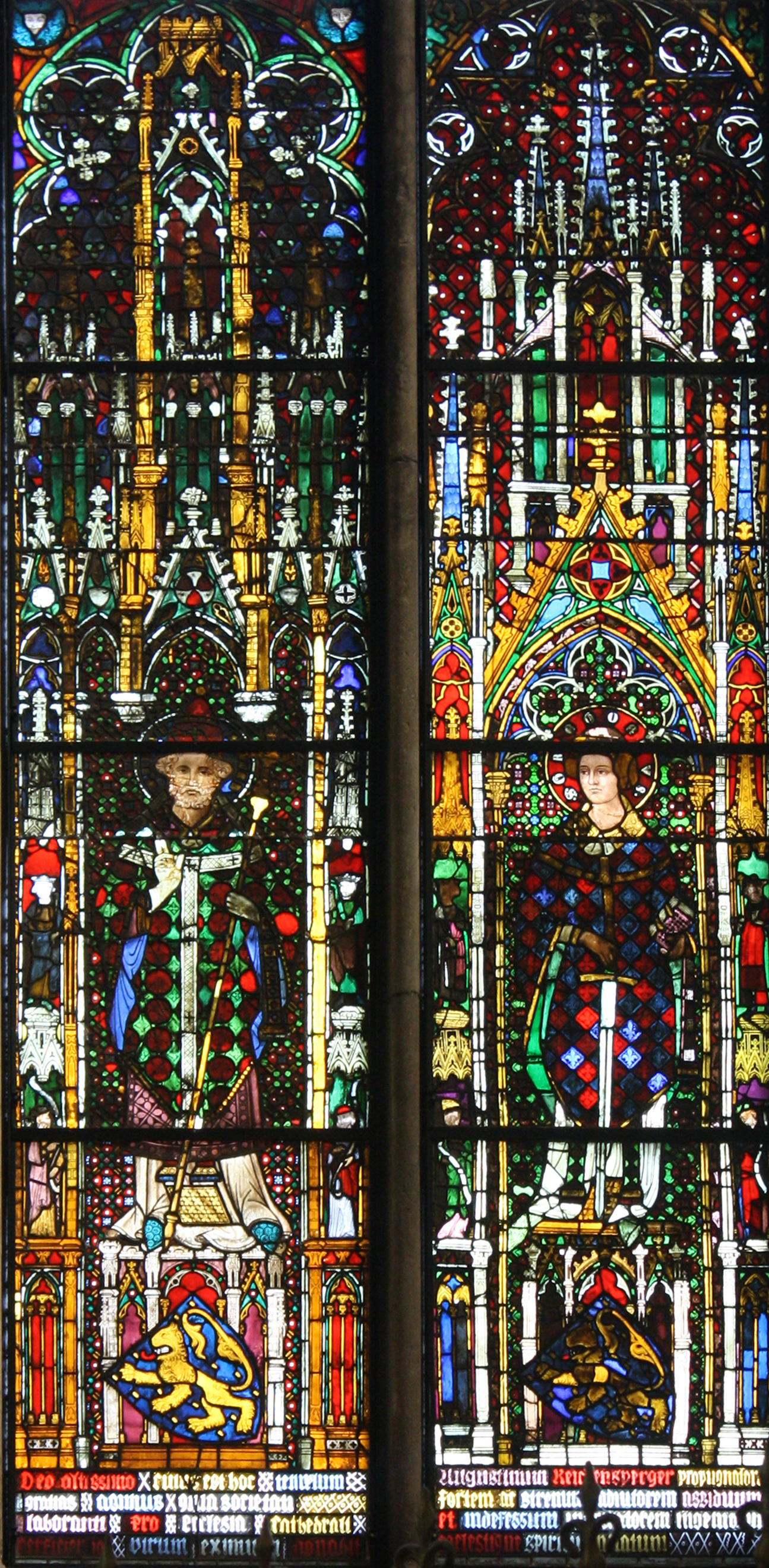 Cologne Cathedral. The St Sylvester and St Gregory window, c.1330